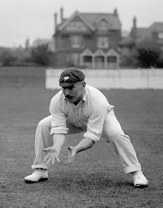 George Hirst, Yorkshire and England, circa 1905.